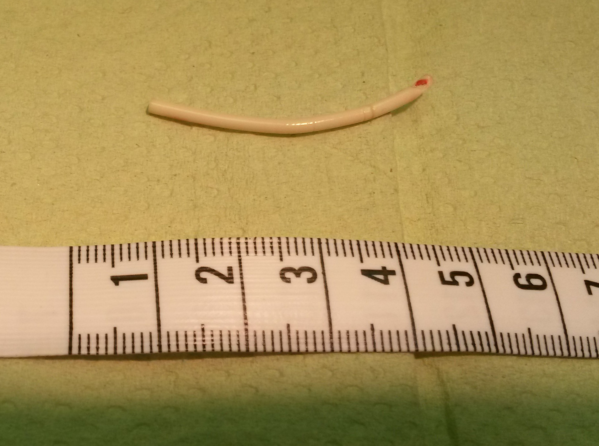 extracted Implanon, a implant that works as a contraceptive for a long time